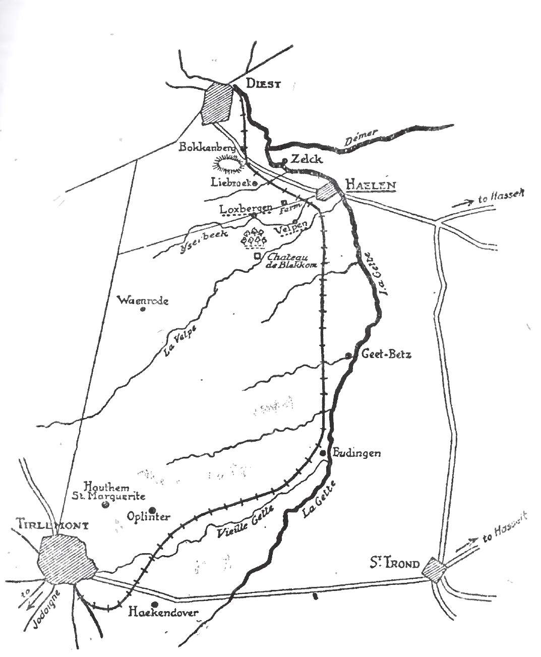 Operations at Haelen, 1914